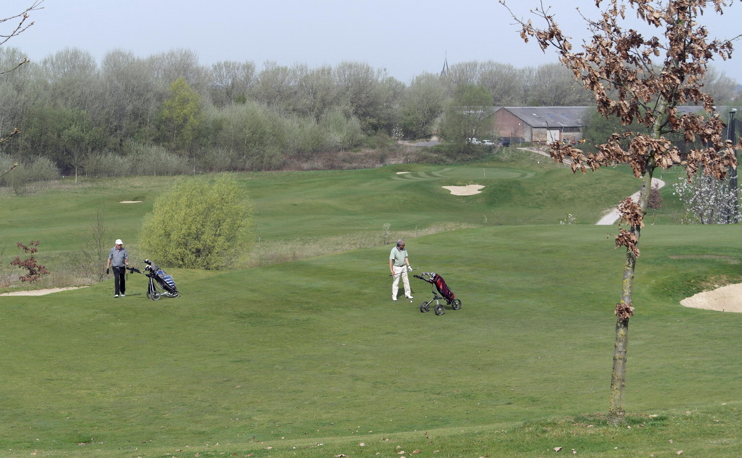 Maastricht, the Netherlands. View of the golf course International Golf Maastricht, home of Golf Club Maastricht, on Dousberg hill on the western edge of Maastricht, situated partly across the Belgian border.